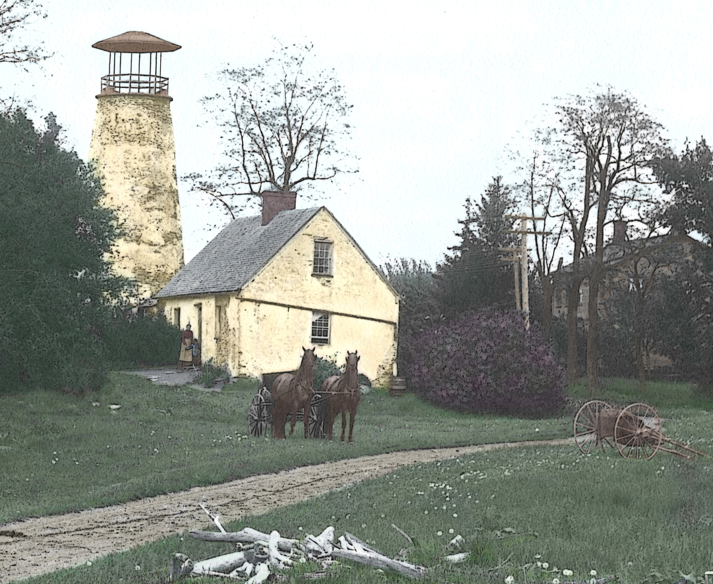 The picture was taken in approximately in 1900 and is in the public domain. It was scanned from the archives of the Patterson Library in Westfield, New York, with permission.